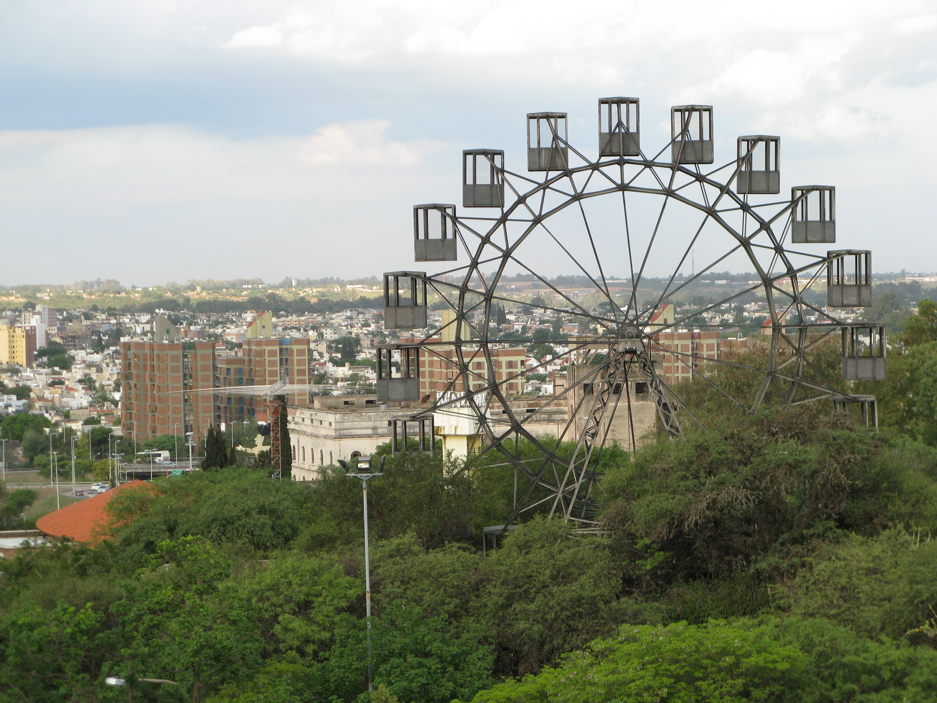 Old Ferris wheel, now in disuse. Cordoba, Argentina.